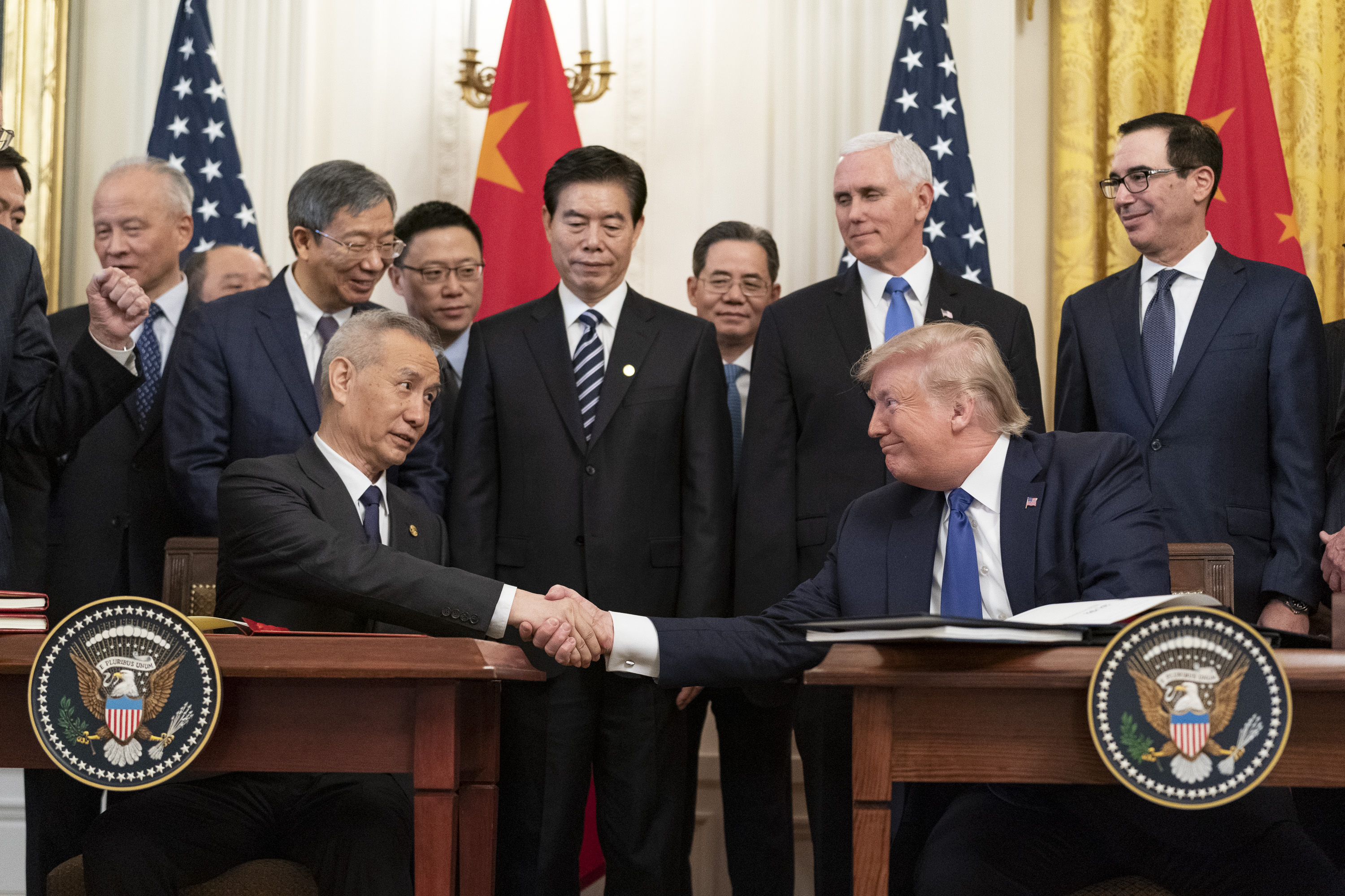 President Donald J. Trump, joined by Chinese Vice Premier Liu He, sign the U.S. China Phase One Trade Agreement Wednesday, Jan. 15, 2020, in the East Room of the White House. (Official White House Photo by Shealah Craighead)